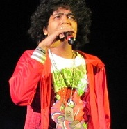 Depicted person: Naresh Iyer – Indian singer